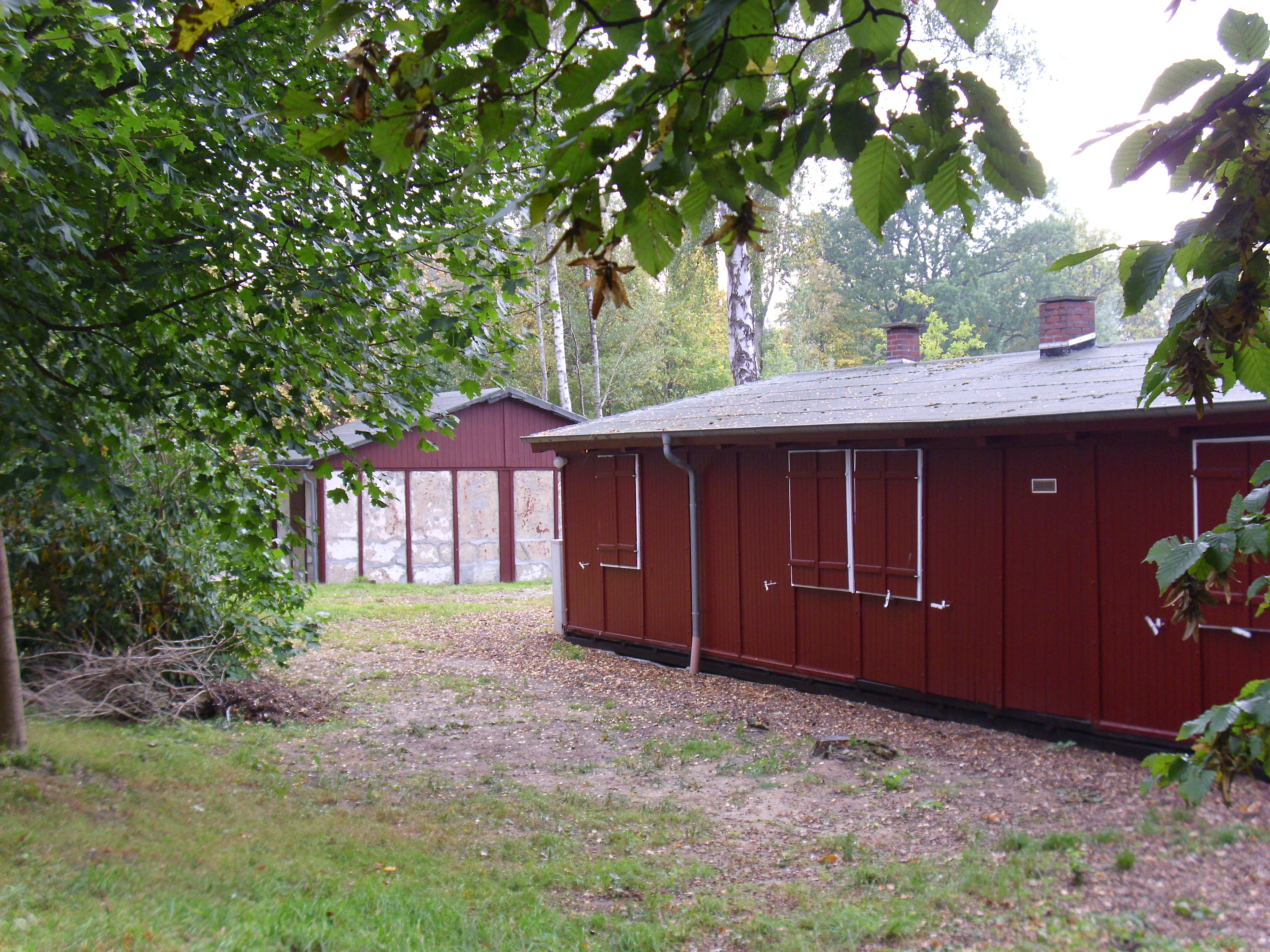 ehemalige Zwangsarbeiterbaracken Wilhelm-Raabe-Weg 23 This is a photograph of an architectural monument.